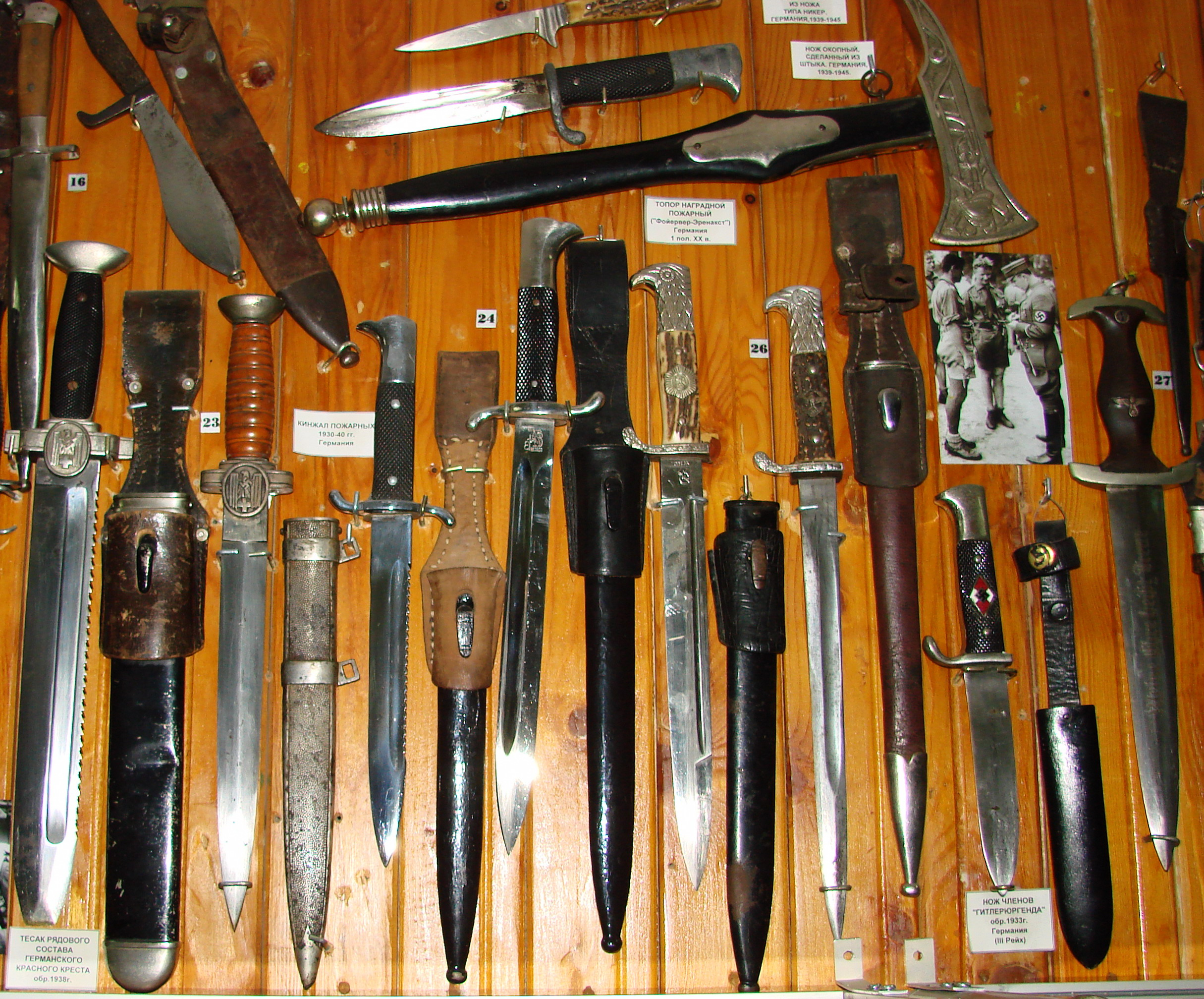 Ukraine, Zaporizhia, Weapon history museum